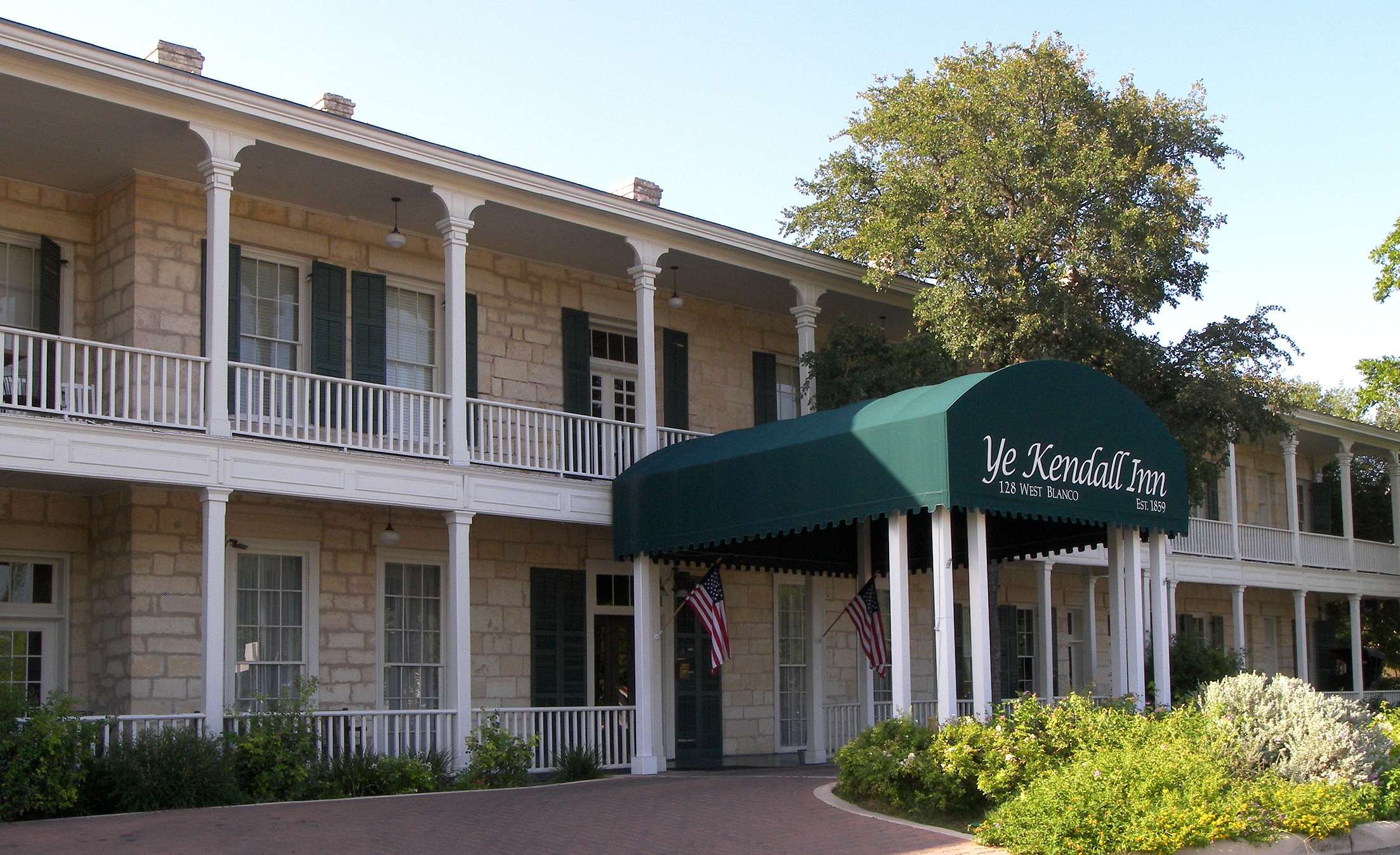 The Kendall Inn located in Boerne, Texas, United States. The building was designated a Recorded Texas Historic Landmark in 1962 and listed on the National Register of Historic Places on June 29, 1976.